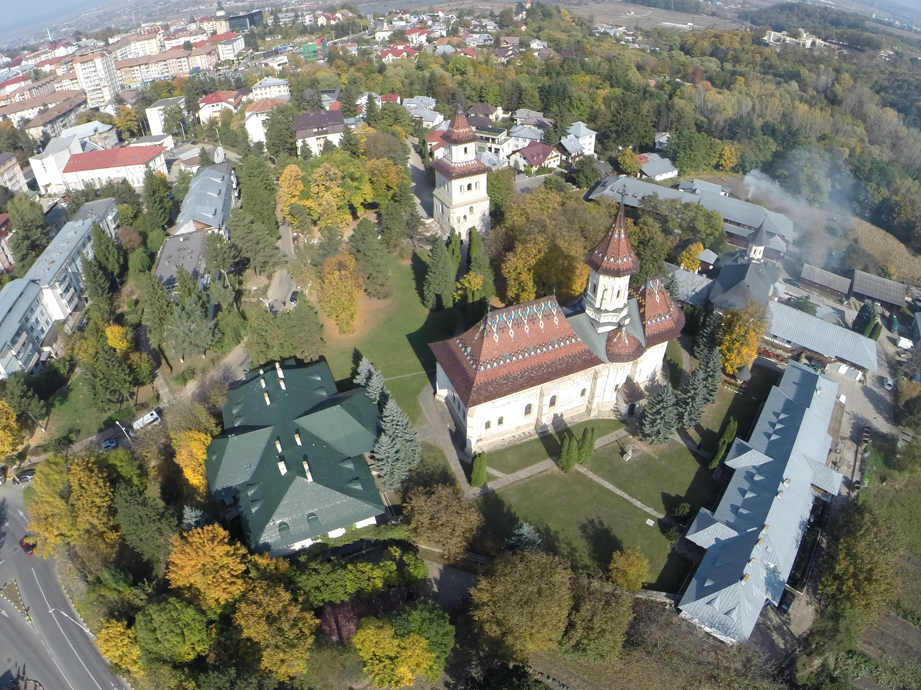 St. John the New Monastery in Suceava - aerial view.